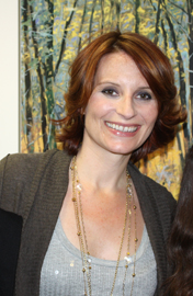 Meg Cabot at book signing